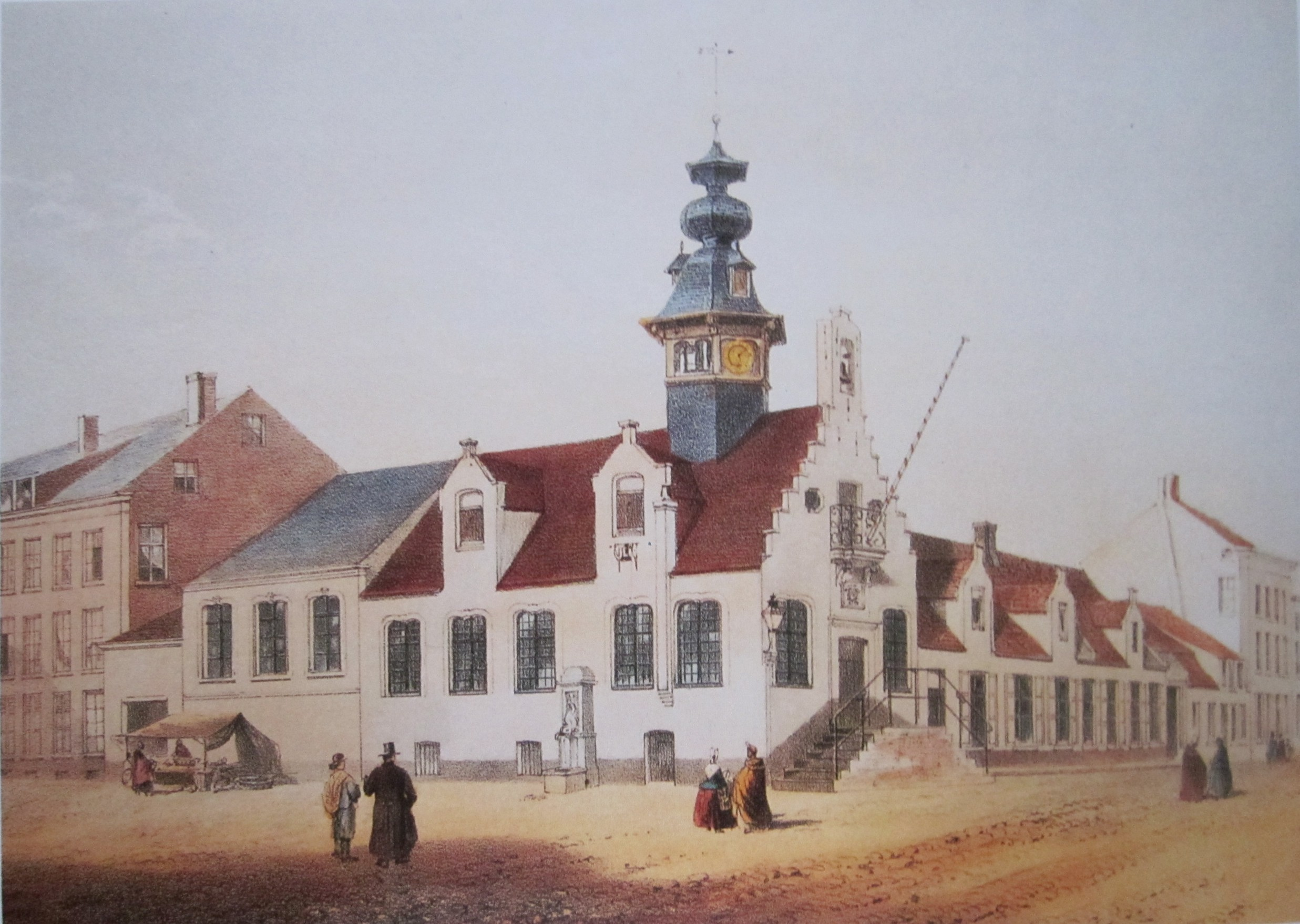 Old town hall of Blankenberge, Belgium, built around 1680. Lithograph by Adrien Canelle (1860)